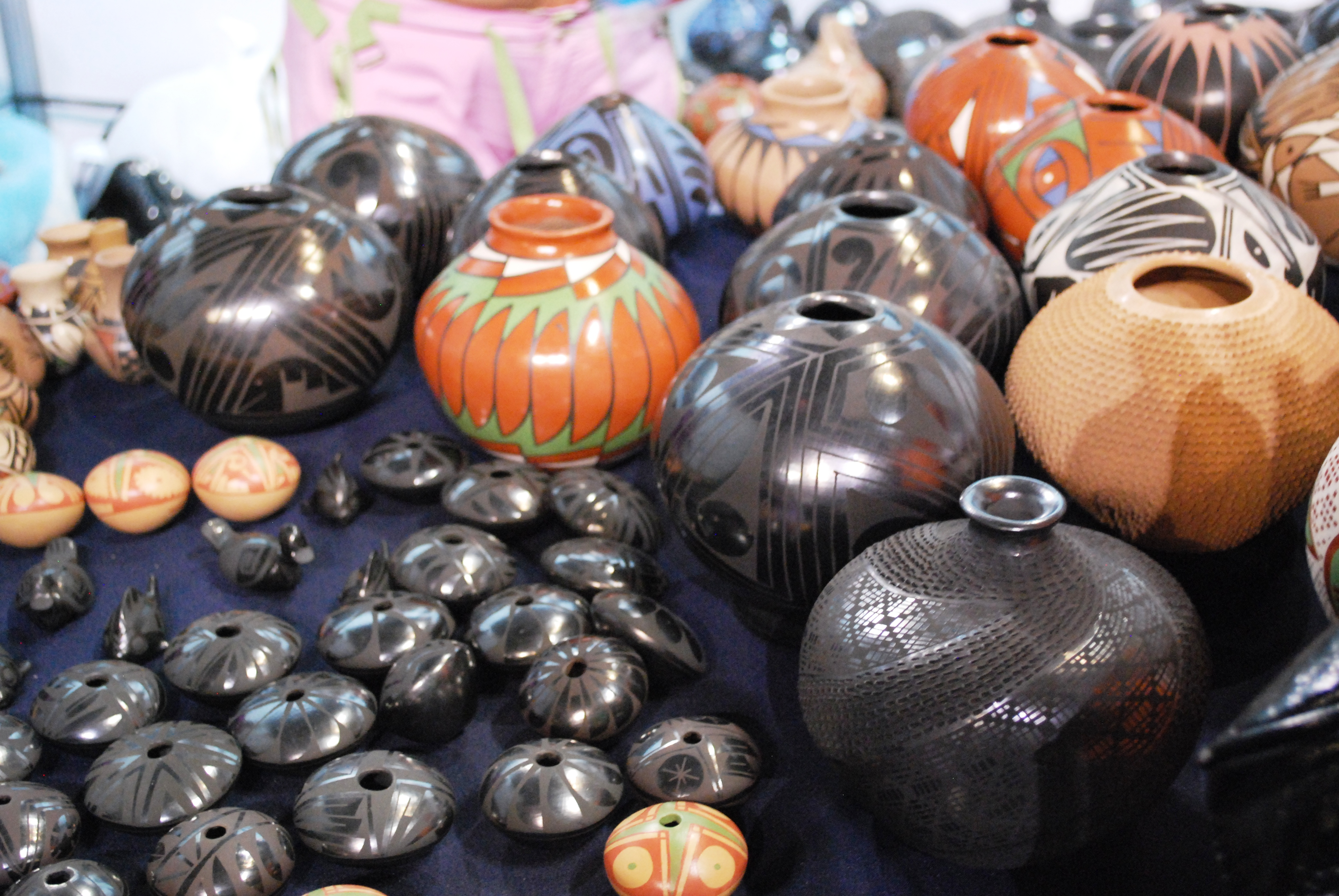 Samples of Mata Oritz pottery from Chihuahua on display at the 2010 FONART exhibition in Mexico City